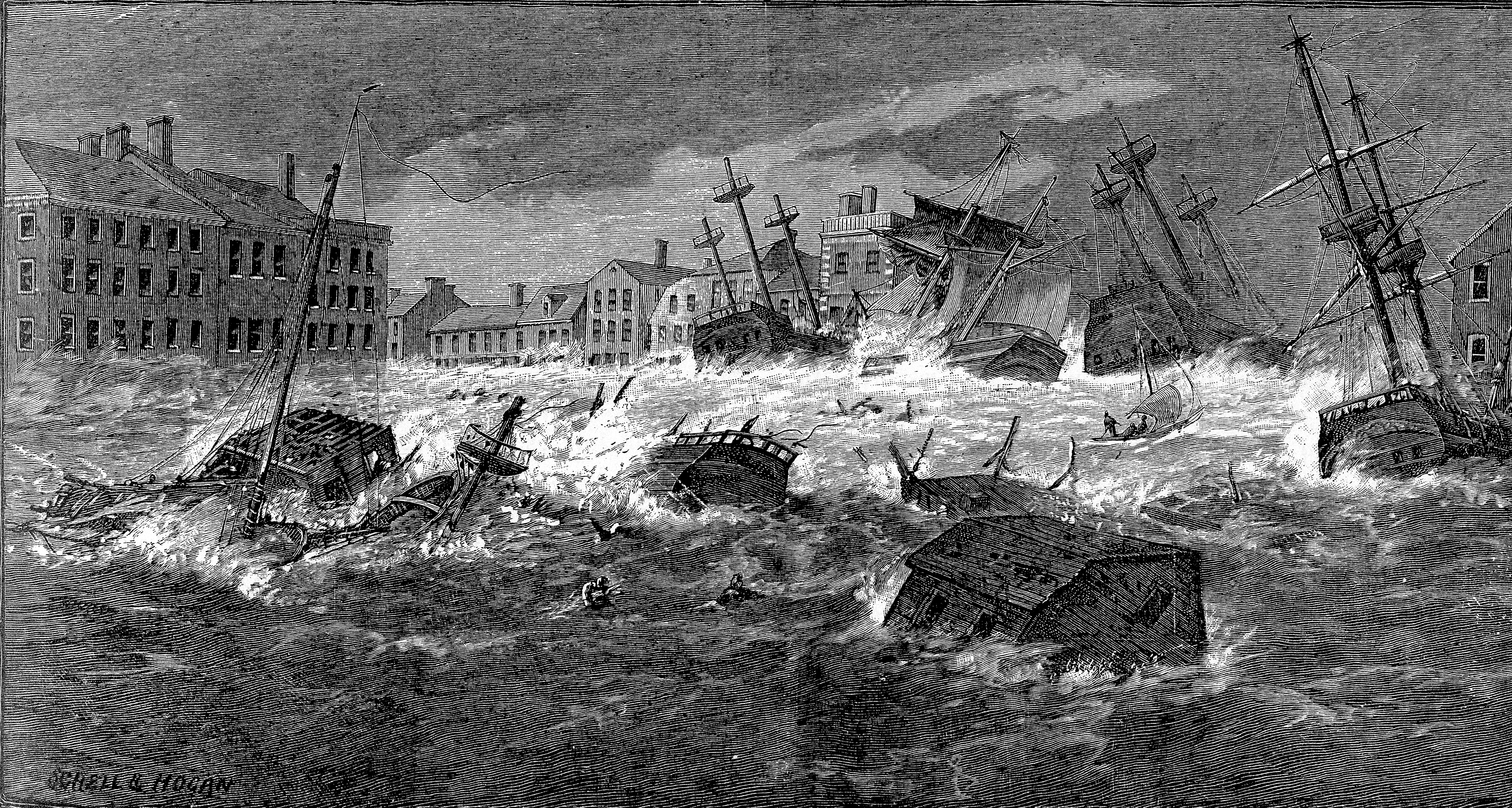 Engraving: The Great Storm of 1815 strikes Providence, Rhode Island. From an old painting in possession of the Rhode Island Historical Society. Left: Westminster Street (Providence, RI). Right: Market Square.